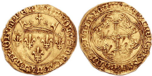 France, Royal. Charles VII de France, le Bien-Servi (the Well-Served). 1422-1461. AV Écu d'or à la couronne (29mm, 3.40 g, 11h). Toulouse mint. 2nd emission, 1445. (crown) KAROLVS DEI GRACIA FRANCORVM REX (figure 8 stops), crowned royal coat-of-arms flanked by crowned lis; annulet below fifth letter (crown) XPC VInCIT XPC REGnAT XPC ImPERAT (figure 8 stops; double cross stop after VInCIT), cross fleurée with central quadrilobe; annulet below fifth letter. Duplessy 511A; Lafaurie 510a; Ciani 634; Friedberg 307. Good VF.